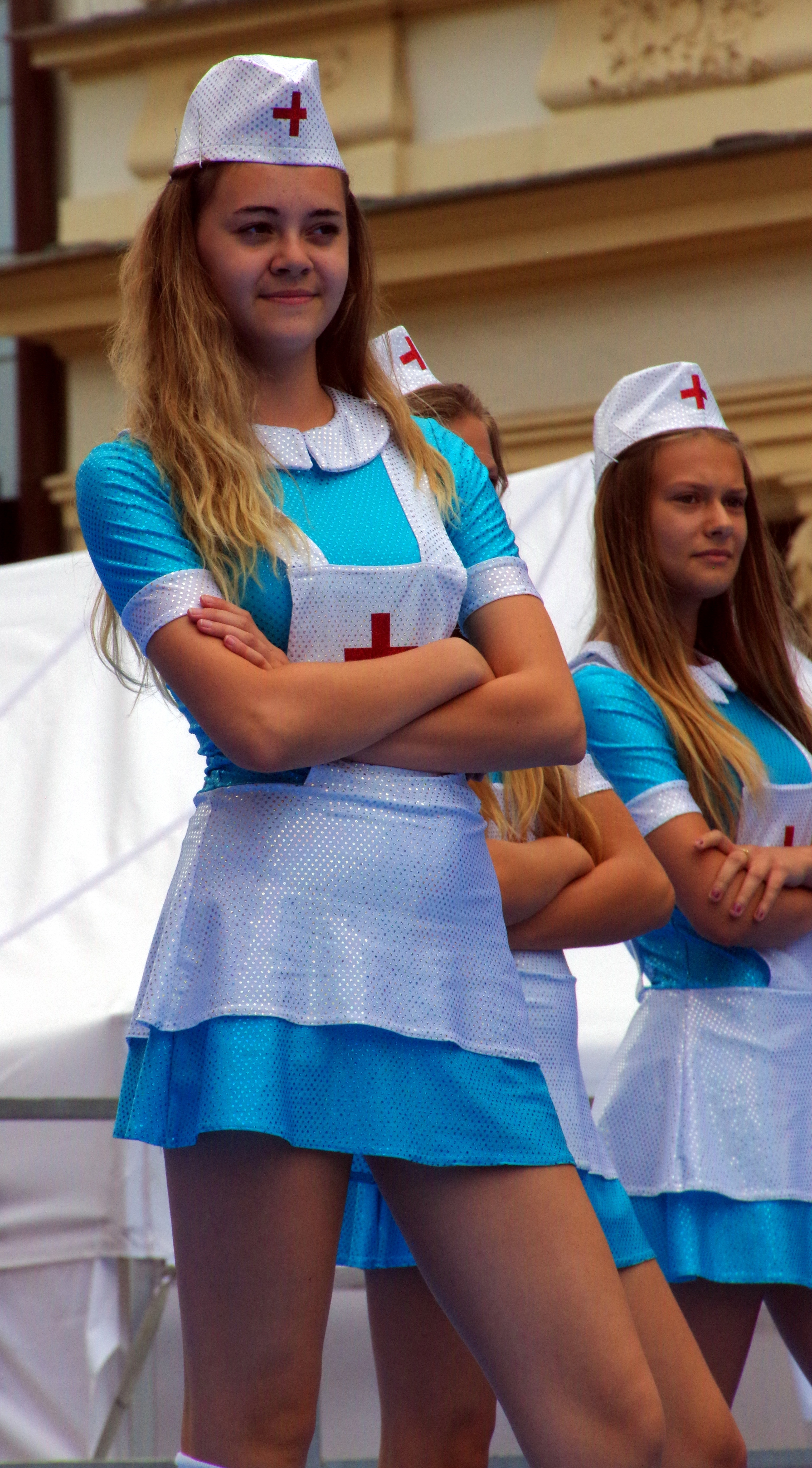 21.7.16 Eurogym 2